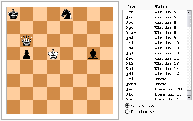 A typical interface for querying chess endgame tablebases. The board was generated using the standard chess diagram template. The scrollbar is from Image:Kde35.png. The other elements and the layout are my own work. The image was inspired by and created with the help of the Knowledge4IT tablebase query applet.